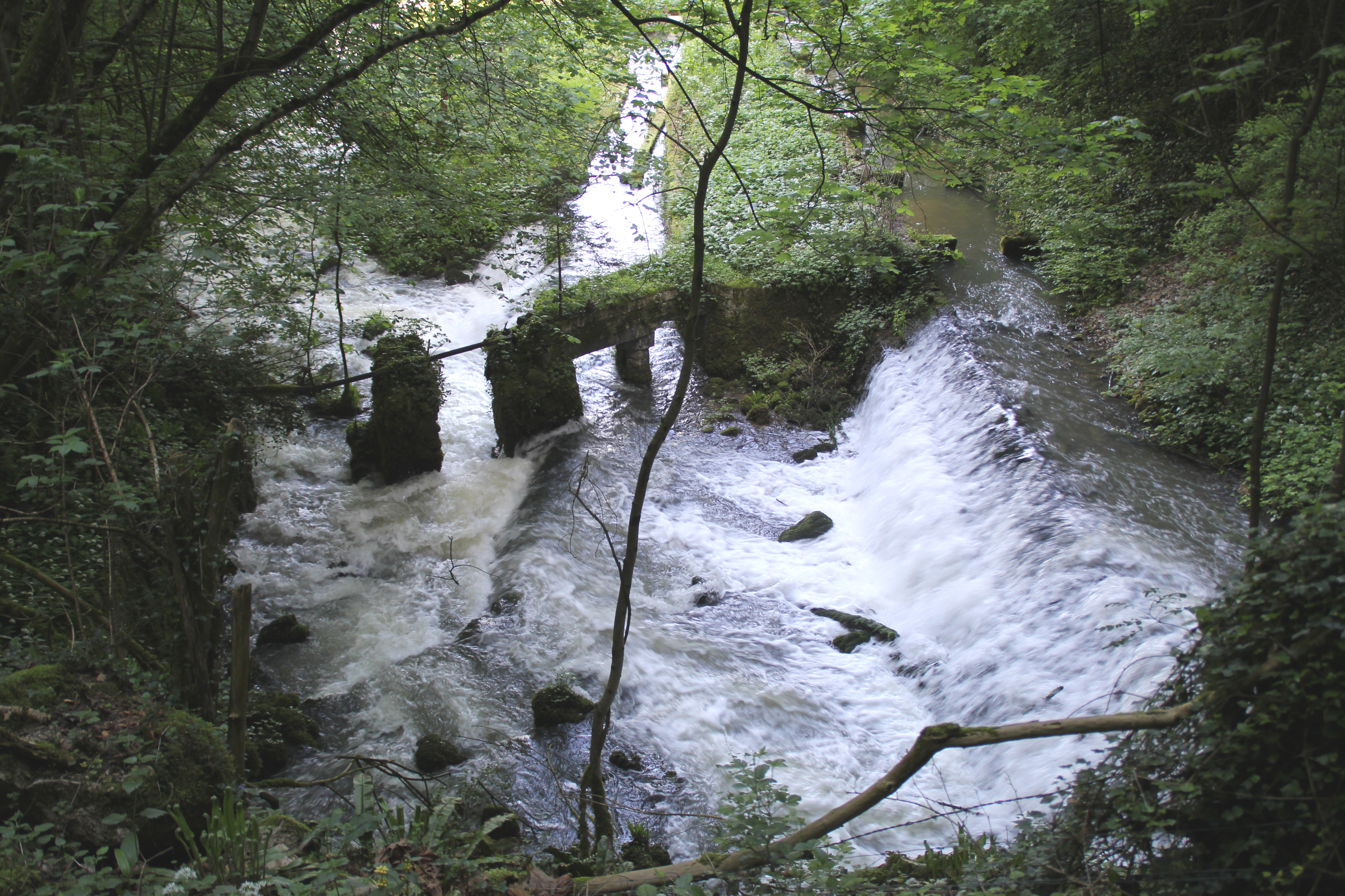 Start of the Aqueduct on the Source Arcier near Vaire-Arcier, France